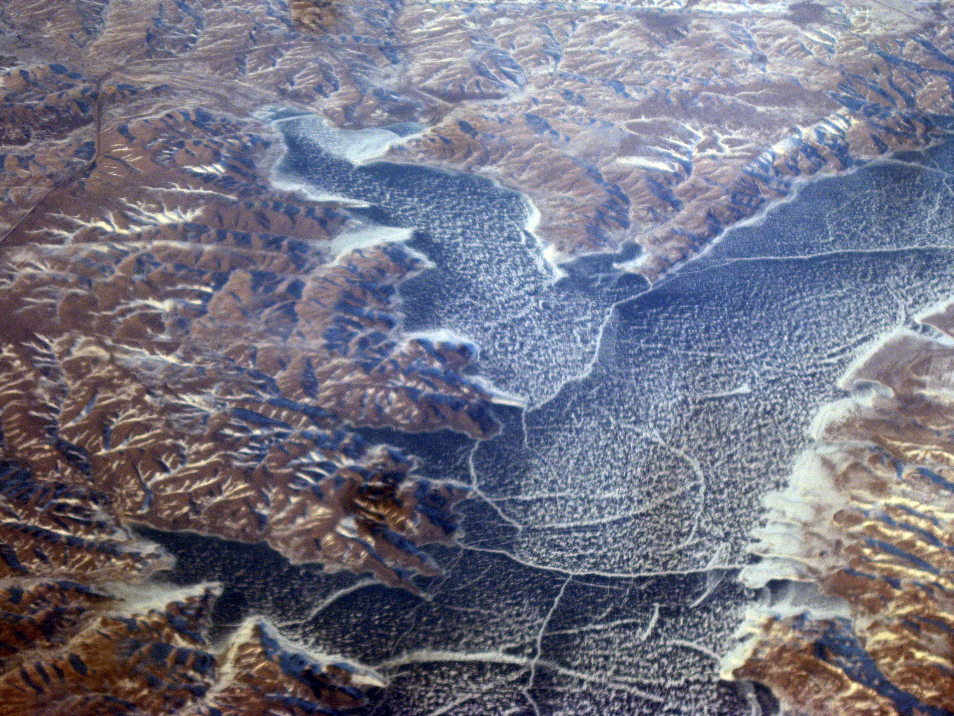 Lake Oahe, in the dammed Missouri River, in the heart of South Dakota. Dolphee's Island is here, under water. It is mentioned in Lewis & Clark's journal. They passed through here in their explorations. Stove Creek Bay is on the upper left